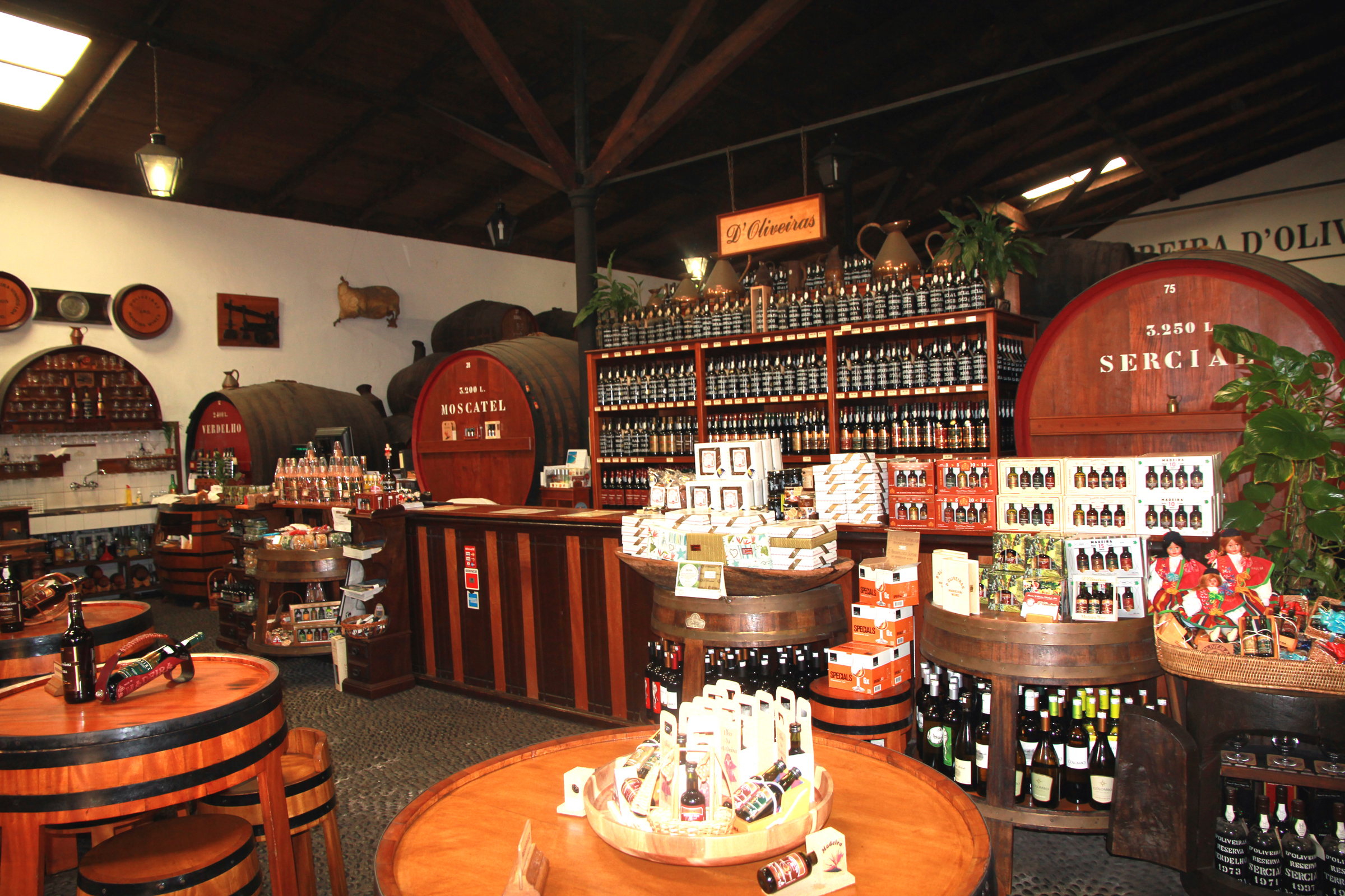 The indoors of the company Pereira D`Oliveiras for Madeira wine production and selling near in the centre of city Funchal, Madeira 2016